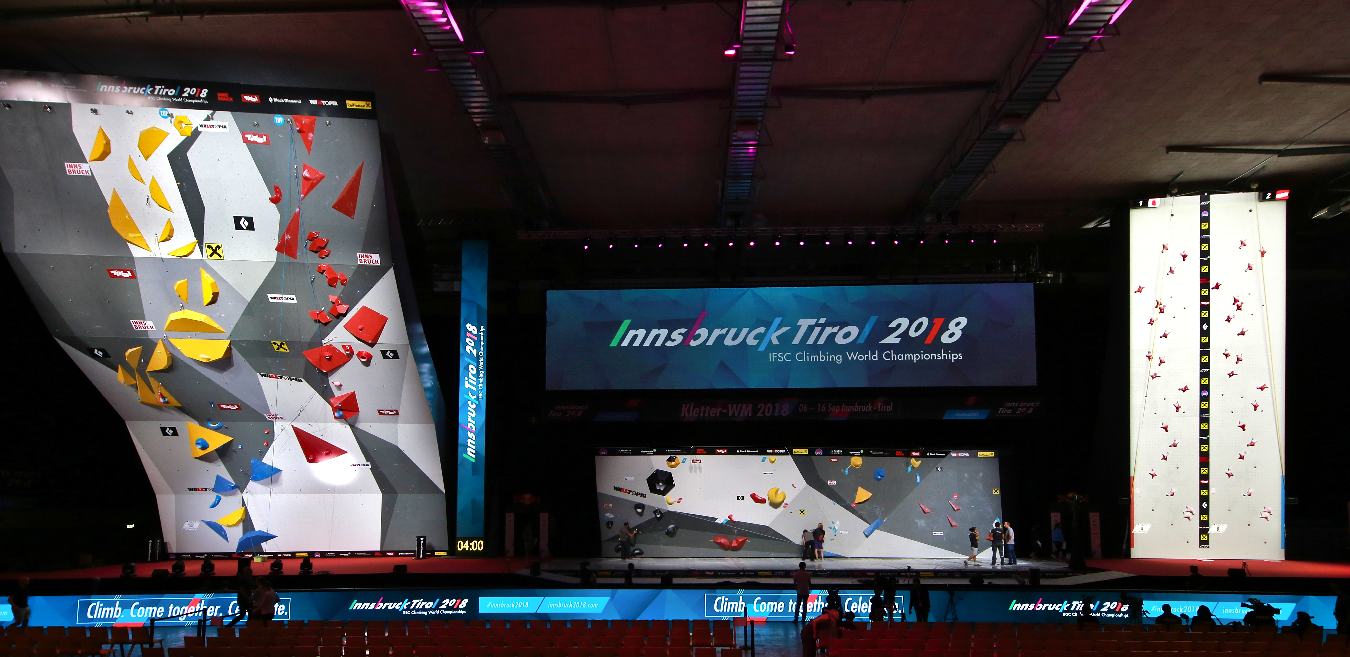 Climbing World Championships 2018 Combined Final